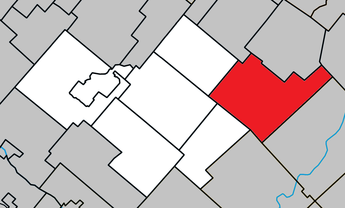 Location of Saint-Joseph-de-Ham-Sud, Quebec within Les Sources Regional County Municipality.